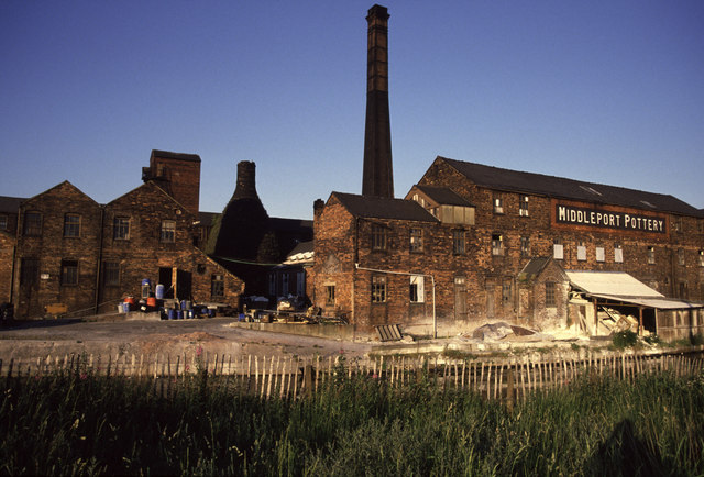 Middleport Pottery, Burslem Home of Burgess and Leigh makers of Burleigh Ware. Now owned by Dorling, Burgess & Leigh and still using original patterns.